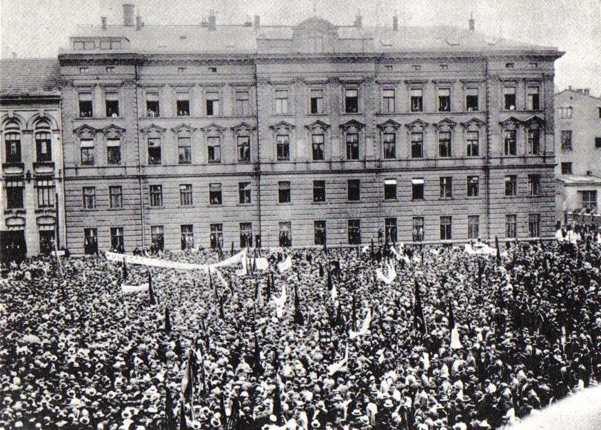 Demonstration of "Centrolew" in Cracow - 29 June 1930.